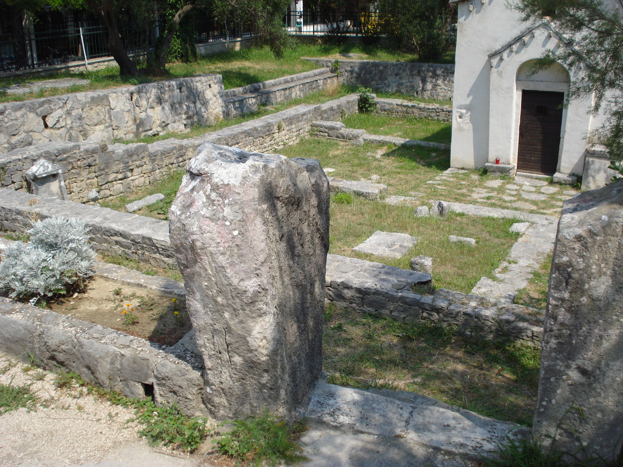 The Church of St. George (14th century), Tučepi, Croatia, complex entrance